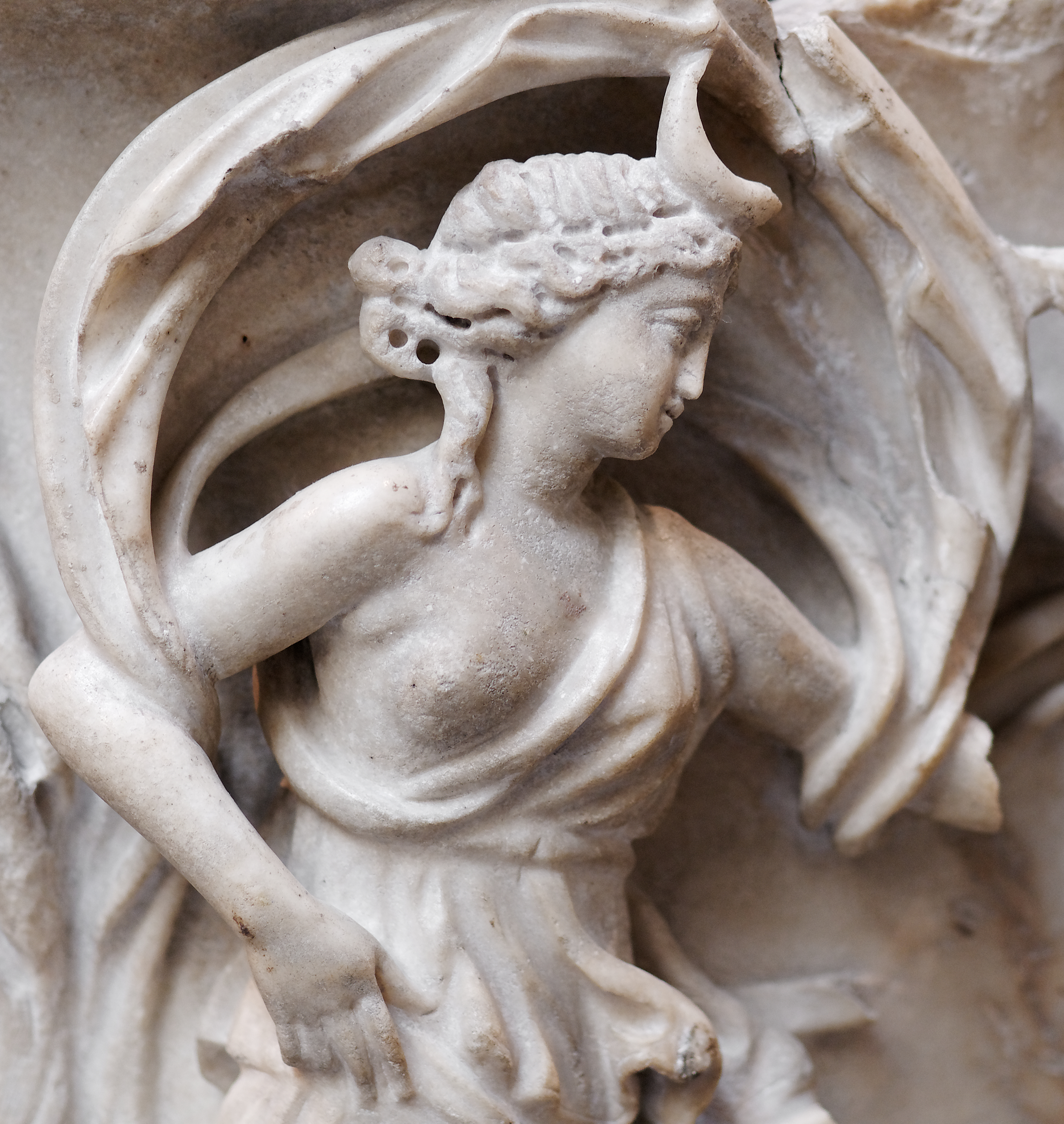 Selene on her chariot, detail from the case of sarcophagus with the myth of Endymion and Selene. Roman artwork of the Imperial period. Found at Ostia in 1825.